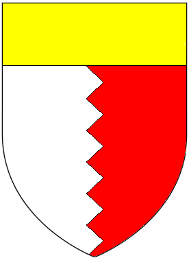 Arms of Willington (ancient): Party per pale indented argent and gules a chief or. (Risdon, Tristram (d.1640), Survey of Devon, 1811 edition, London, 1811, with 1810 Additions, p.317)